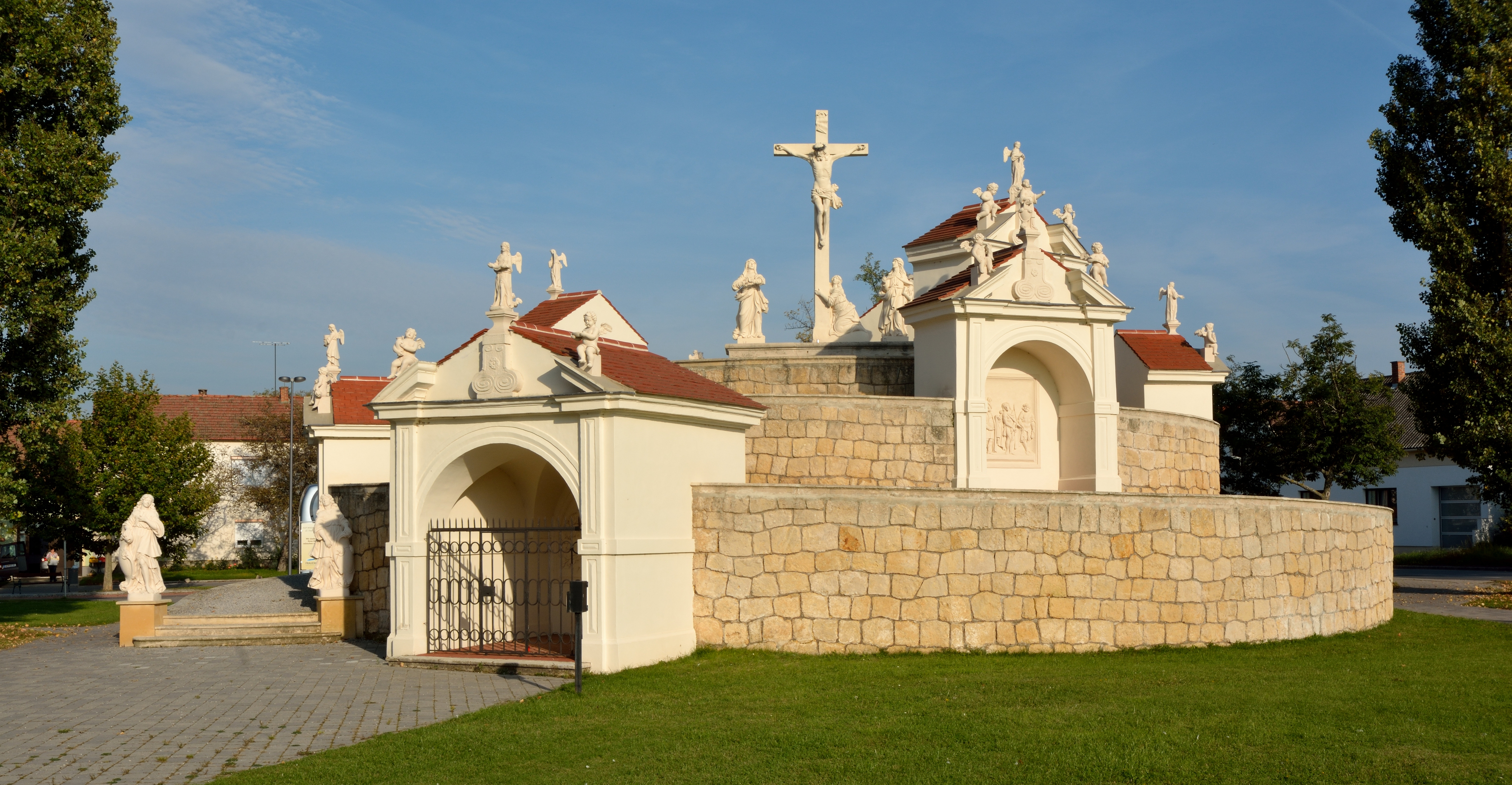 Calvary Frauenkirchen (1685), Burgenland, Austria